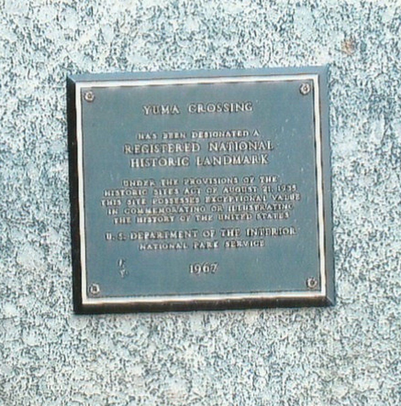 The Yuma Crossing Marker located on the Banks of the Colorado River. Listed in the National Register of Historic Places on November 13, 1966, reference #66000197.